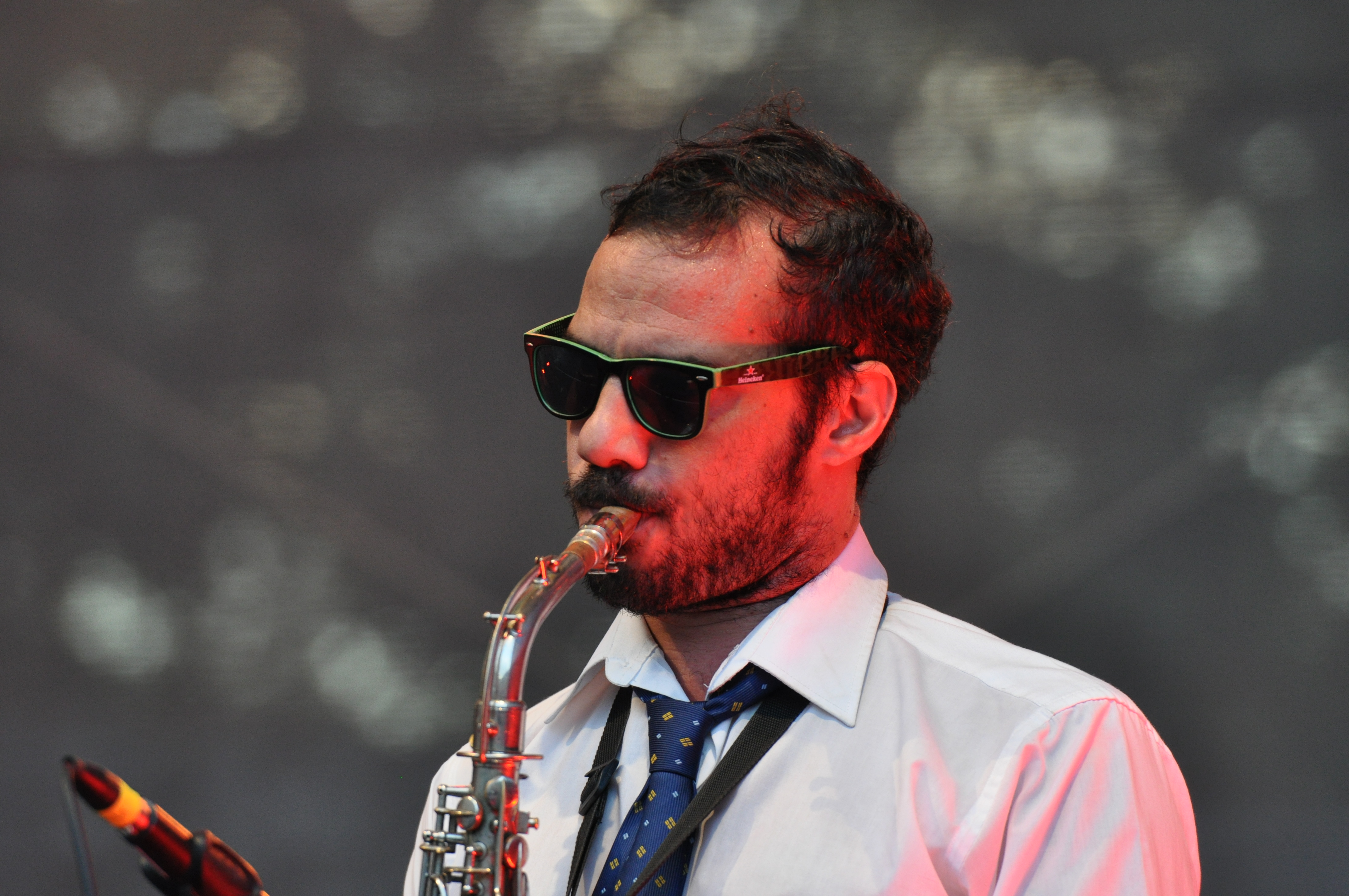 Rosario Smowing (AR), appearance at the 12th World Music Festival "Horizonte" 2014 at the fortress of Ehrenbreitstein, Koblenz (Germany)